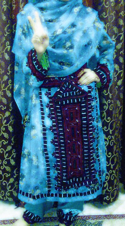 Balochi traditional woman dress